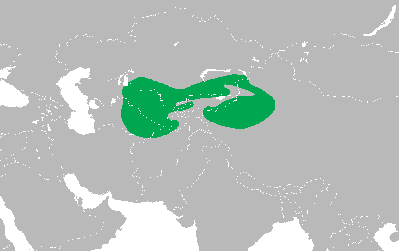 White-winged Woodpecker (Dendrocopos leucopterus) distribution map